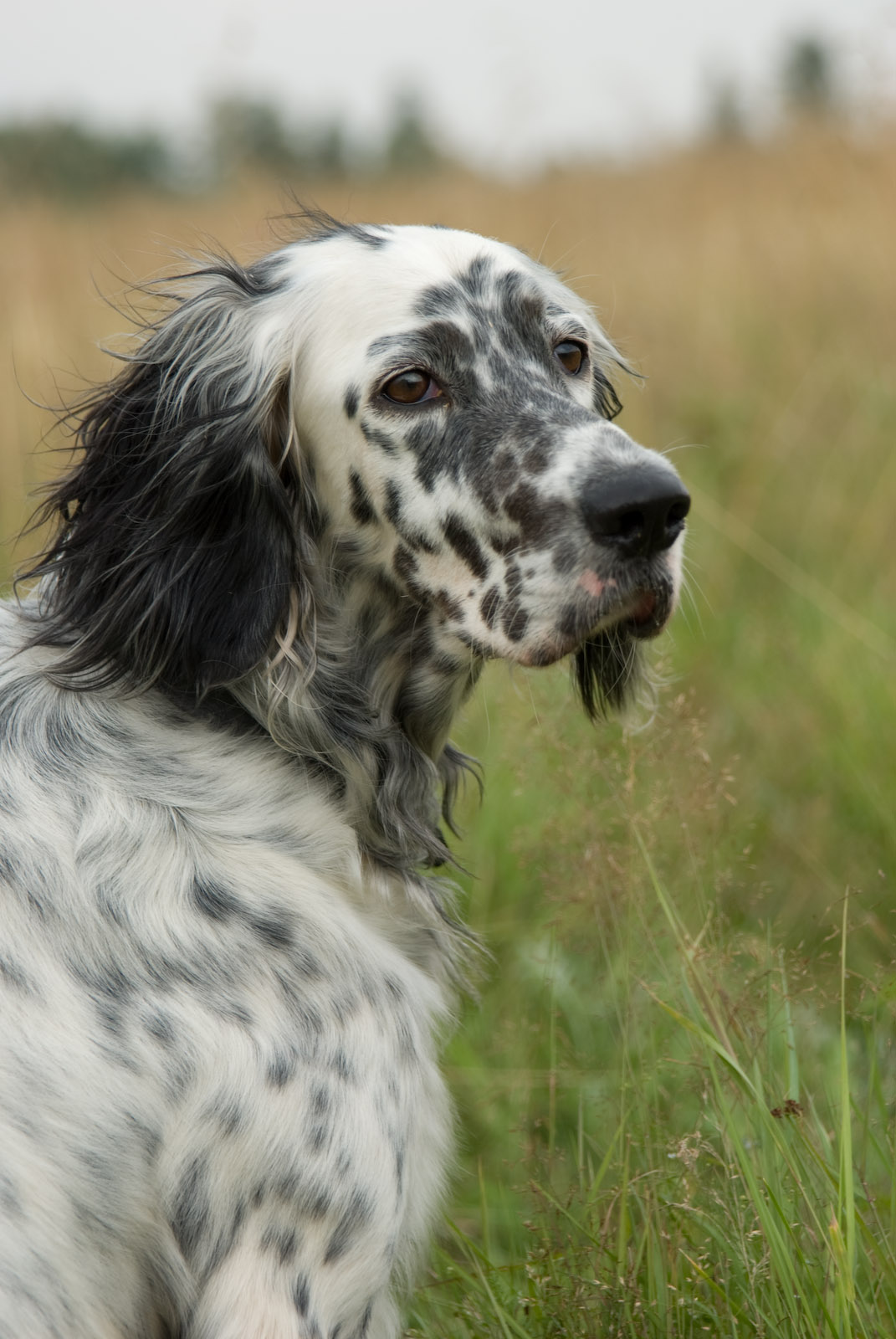 English Setter